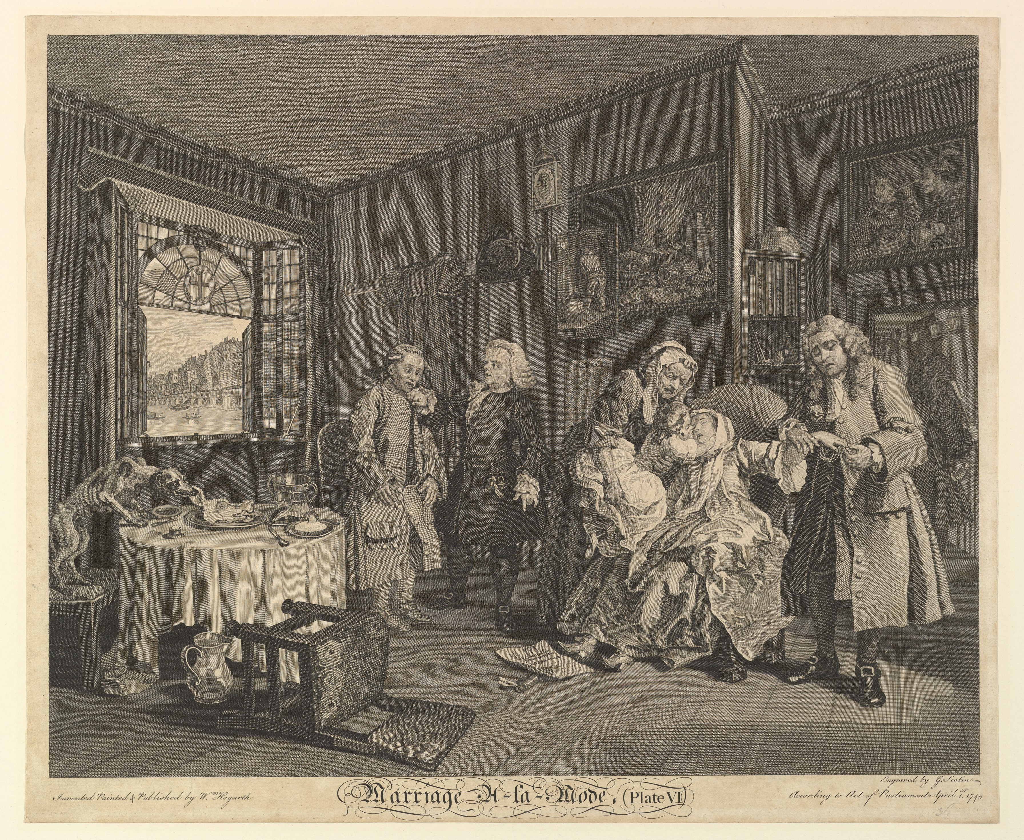 Print; Prints